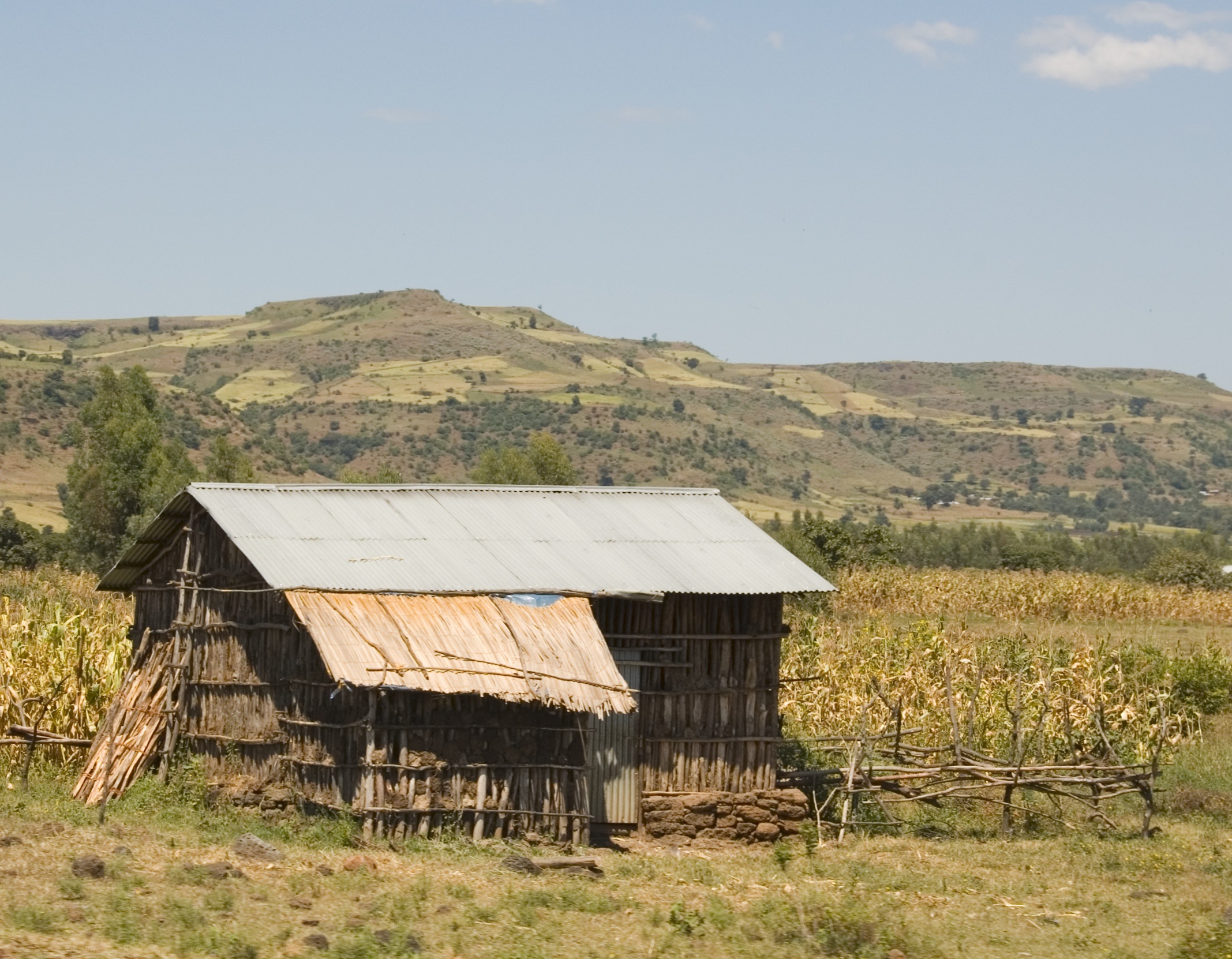 Scenes along the route from the falls of the Blue Nile to the city of Bahir Dar in northwestern Ethiopia.